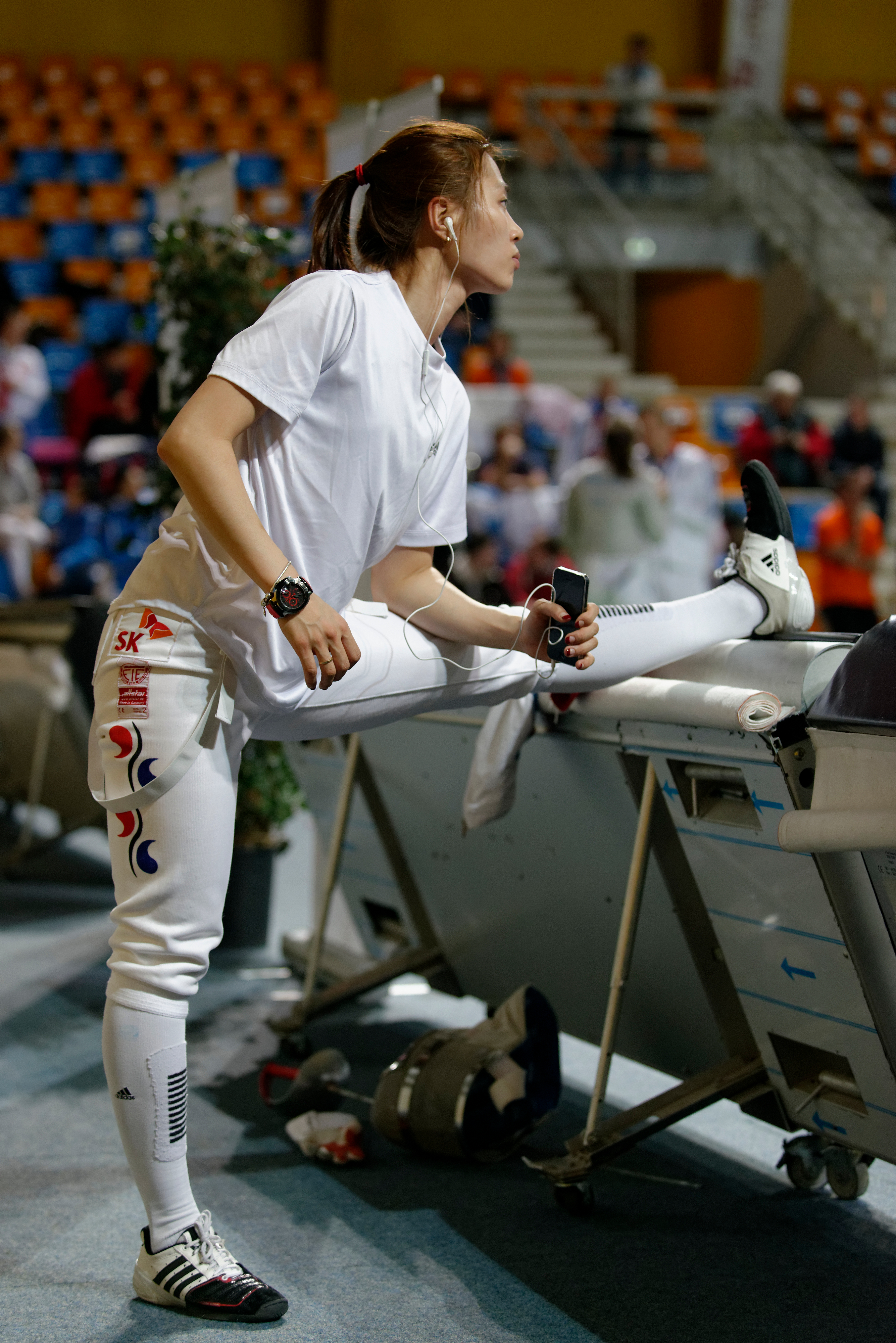 Kim Ji-yeon of South Korea warm up ahead of her T64 bout at the Trophée BNP Paribas-Grand Prix FIE, first stage of the women's sabre World Cup, in Orléans.